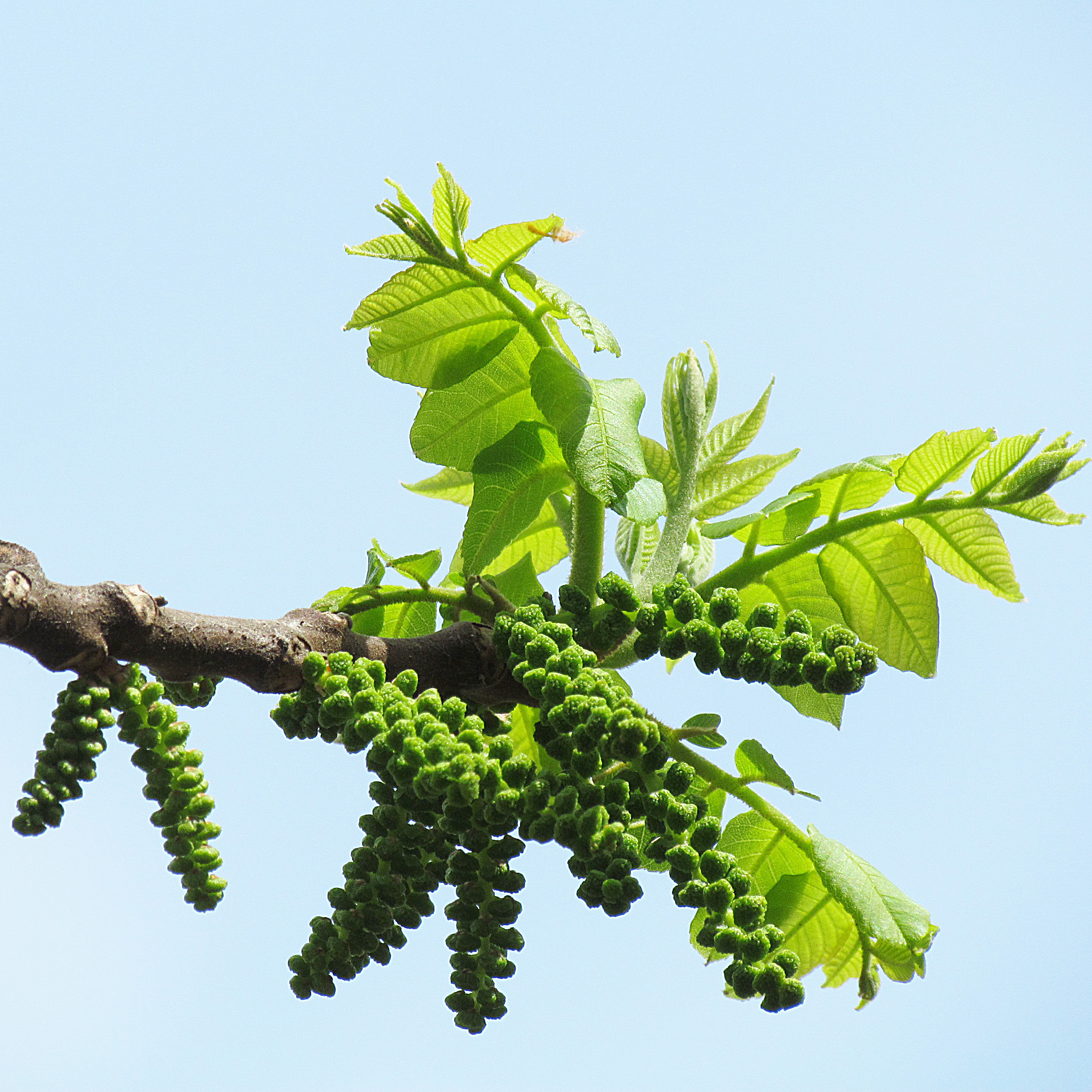 Male catkins Juglans nigra